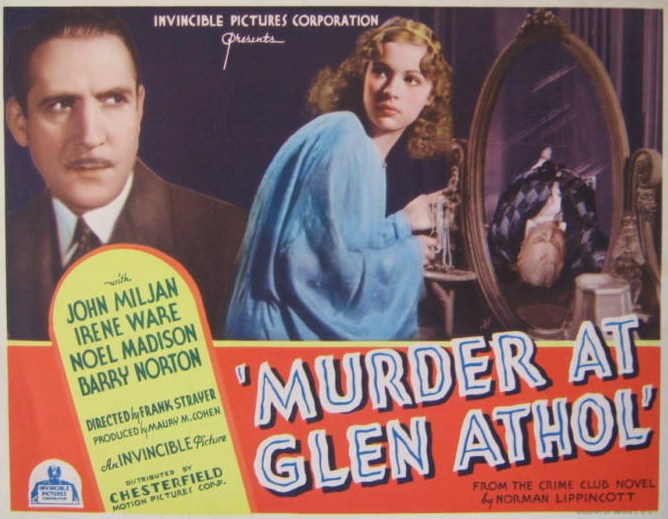 Murder at Glen Athol, with John Miljan and Irene Ware - poster